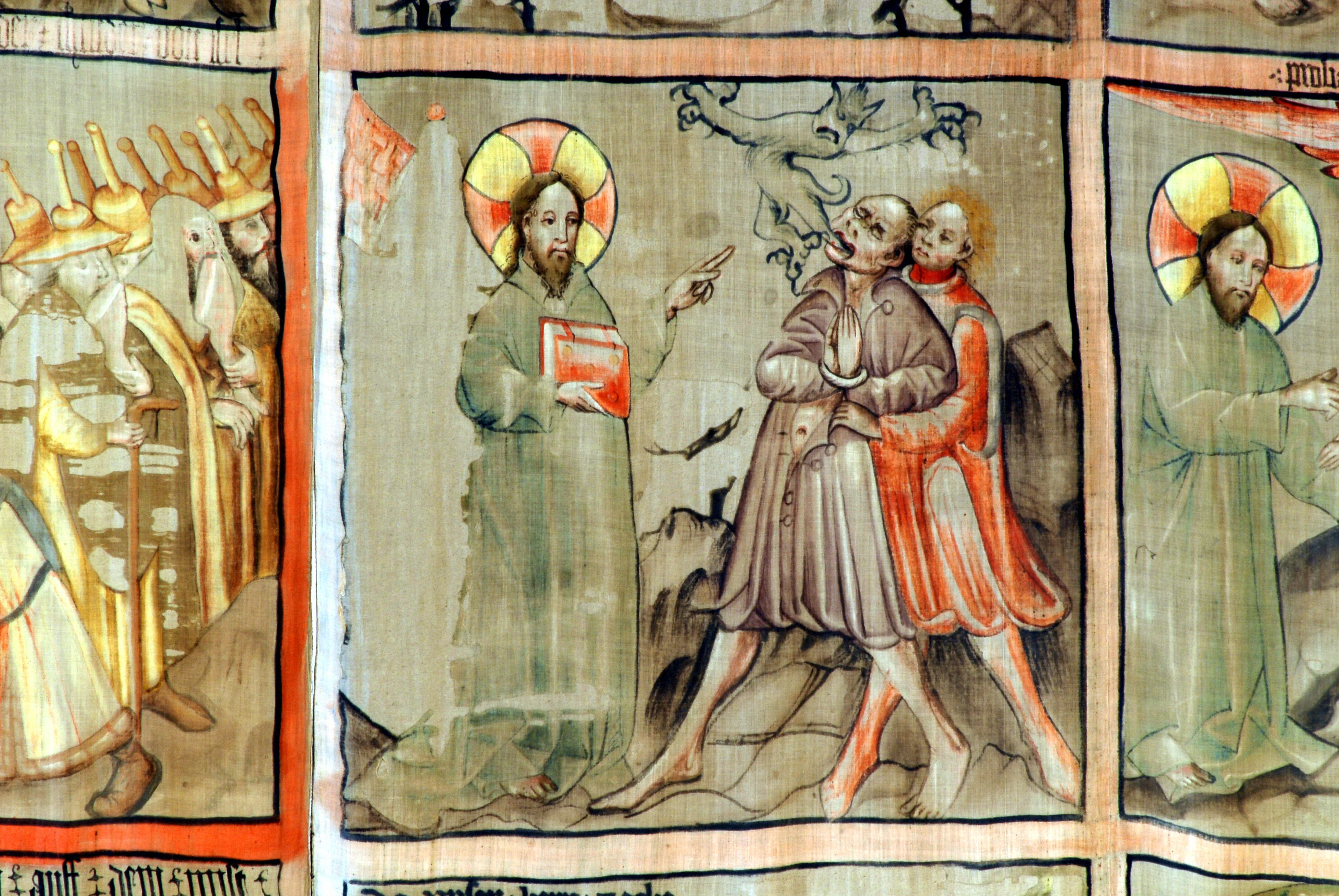 Jesus Christ dispossesses (section of painting scenes on the abstinence cloth in the Cathedral of Gurk, Carinthia, Austria)